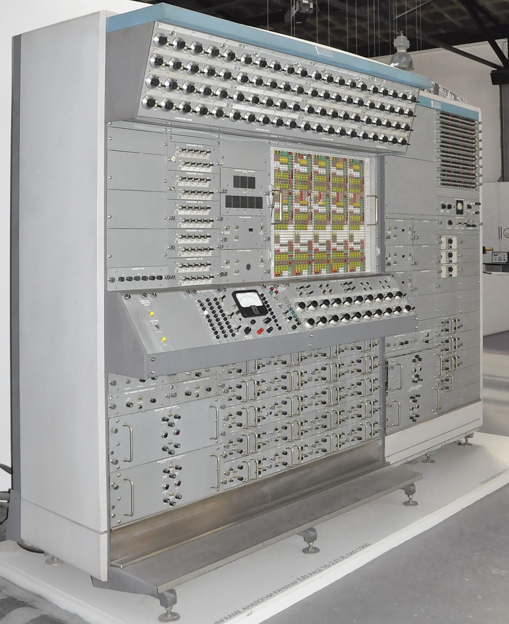 Analog computer model EAI. It was used in 1960. Today, this model is located in Museum of Science and Technology Belgrade.